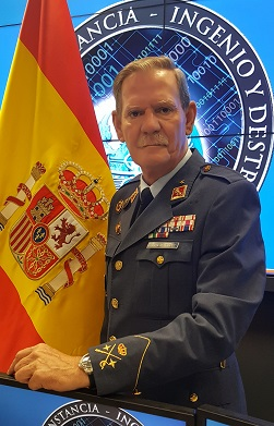 Divisional general Rafael Garcia Hernandez, Chief Commander of the Joint Cyber-Defence Command (CMCCD).